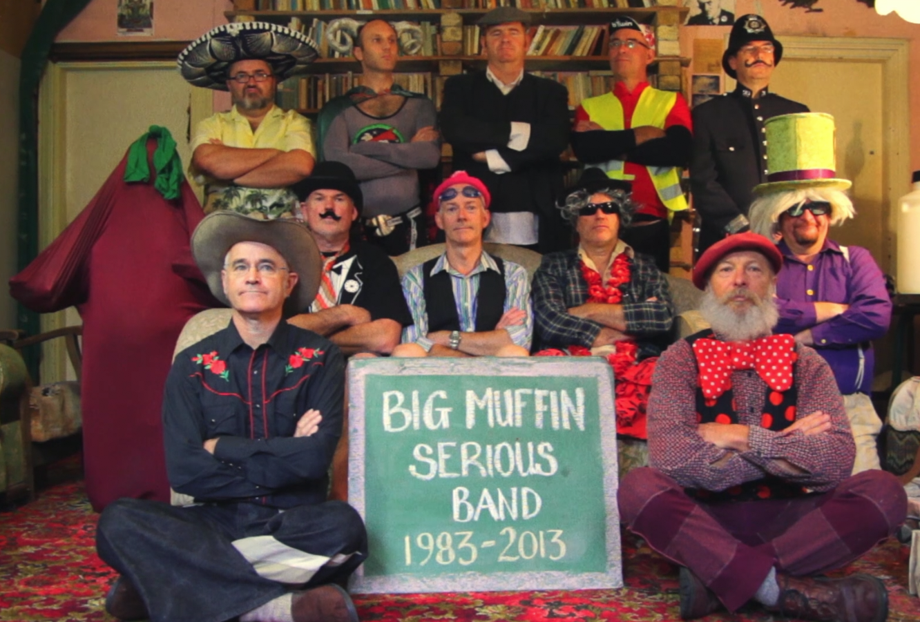 A photo taken from music video celebrating Big Muffin Serious Band's 30th anniversary